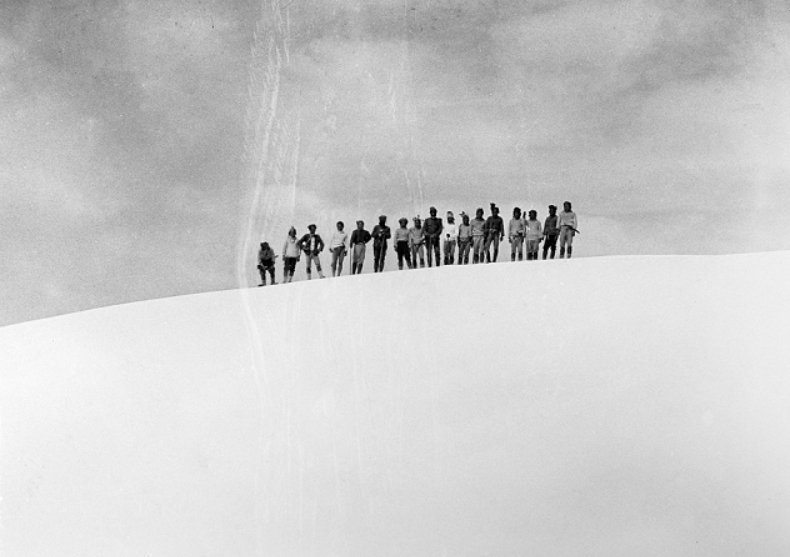 Climbers on summit of Wilhelminatop (first ascent 21 February 1913), Puncak Trikora. By A. F. Herderschee (1872–1932)